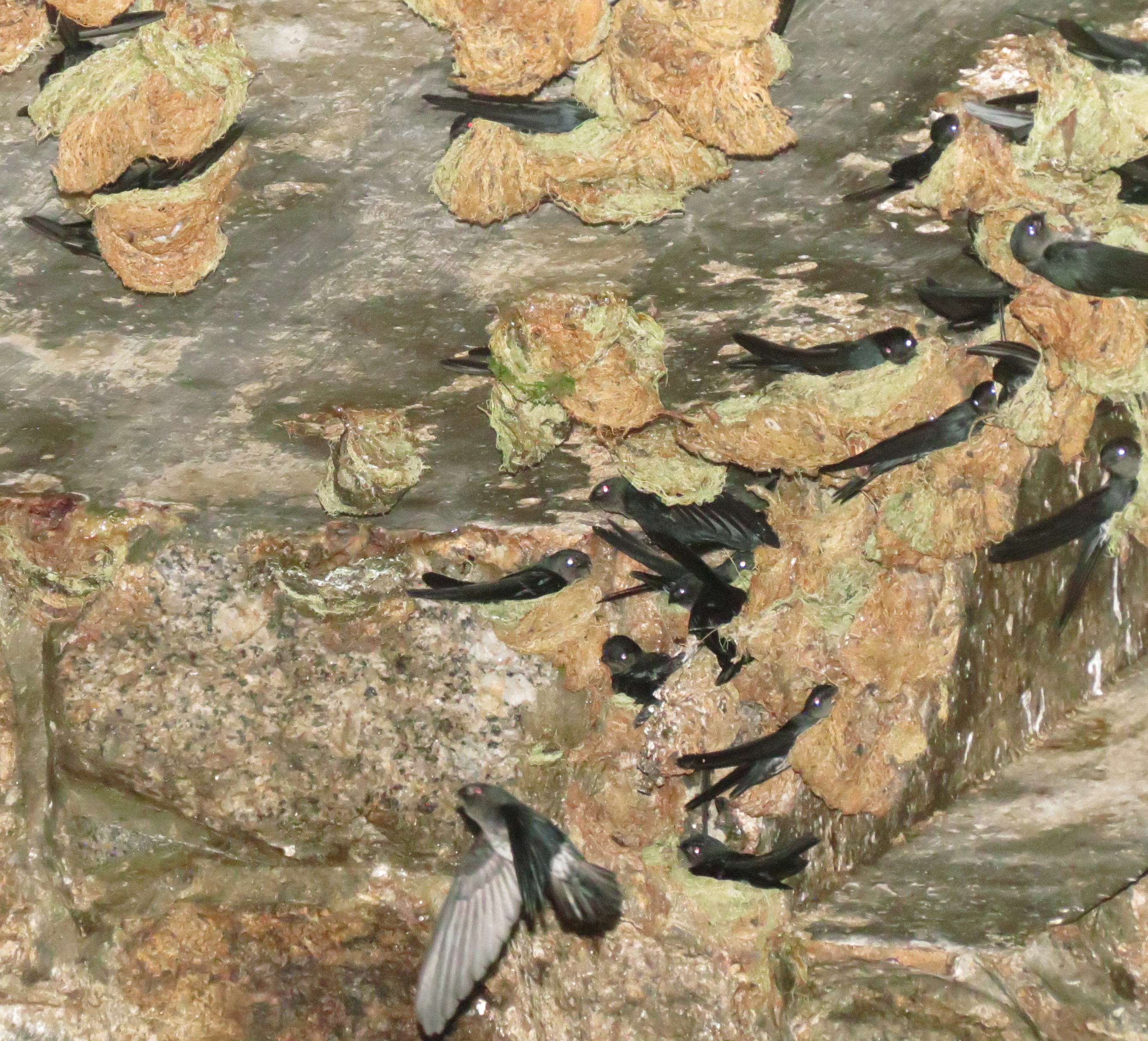 Plume-toed swiftlets entering and exiting their nests. The nests are affixed to the ceiling of a cinderblock garage built into a hillside. These birds were photographed in Peninsular Malaysia so are probably C. a. cyanoptila; their identity as plume-toes was confirmed by the building owner via close-up photographs.